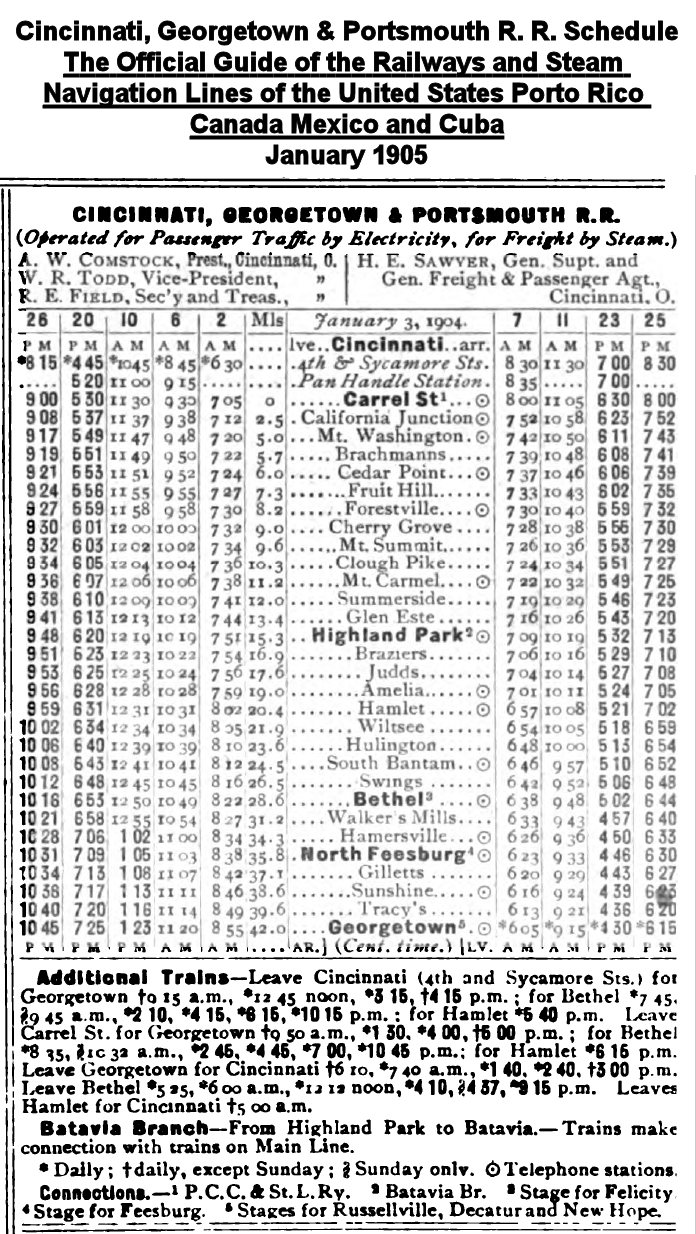 The 1905 schedule for the Cincinnati, Georgetown and Portsmouth Railroad. Note that it operates both electric and steam, making it an early hybrid.